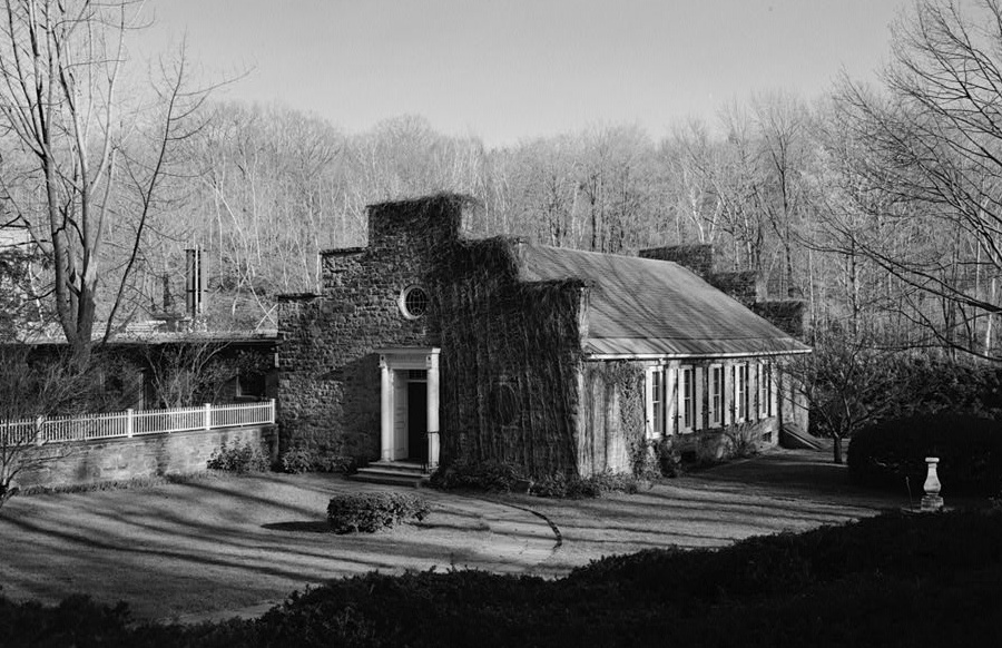 Crane and Company Old Stone Mill Rag Room, housing the Crane (Paper) Company's museum.